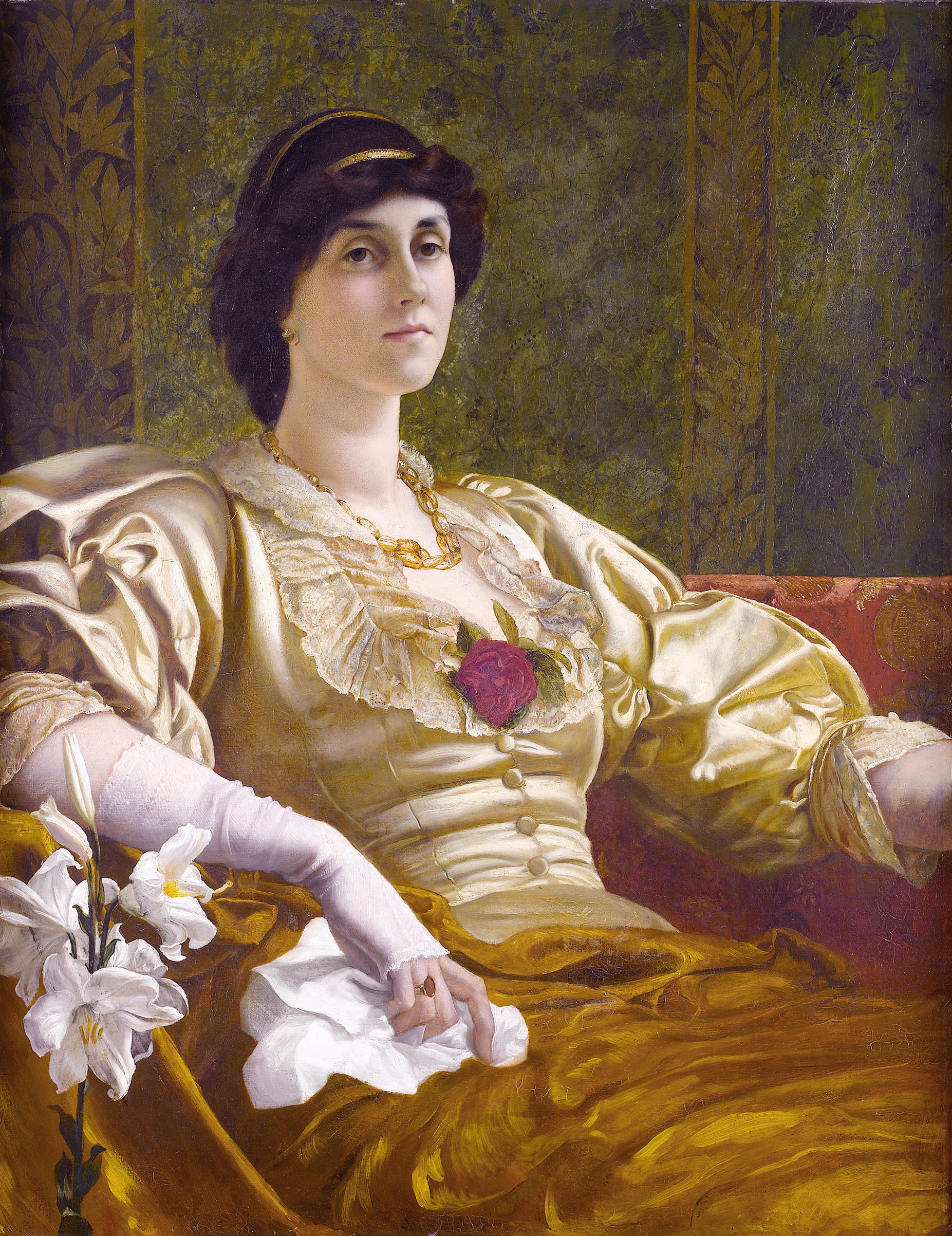 Ethel Bertha Harrison (1851-1916) oil on canvas 90.5 x 70.5 cm